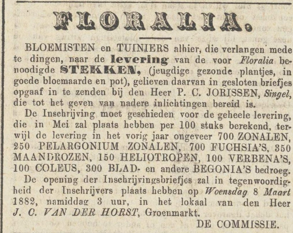 Tender for horticulturists for the Floralia in Dordrecht in Dordtse Courant Dordtse Courant 1882-2-26